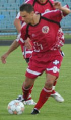 Mykhaylo Hurka, defender of FC Volyn Lutsk